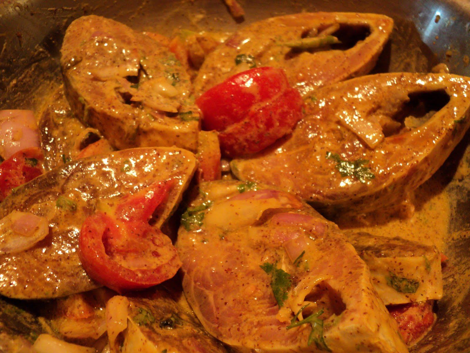 Tomato mustard ginger paste with Ilishi fish cooked in oriya style from Indian state of Orissa